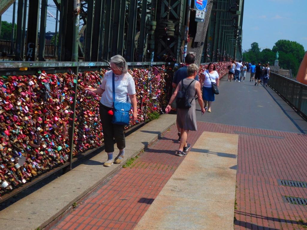 Bridge in Cologne over the Rhine River.